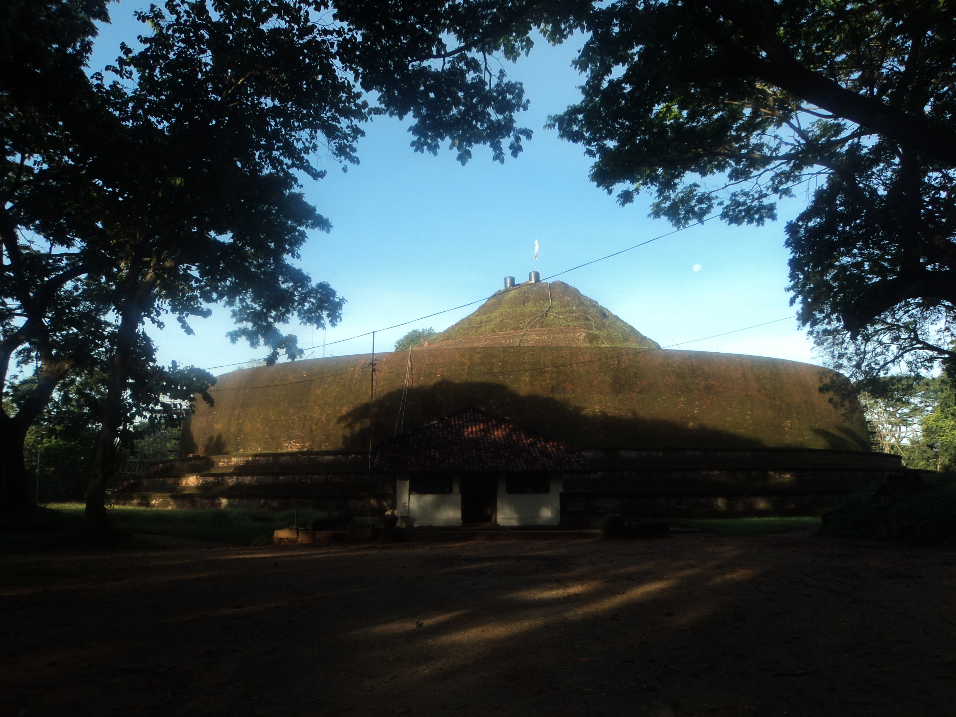 Yudaganawa Stupa සිංහල: යුධගනාව ස්ථූපය